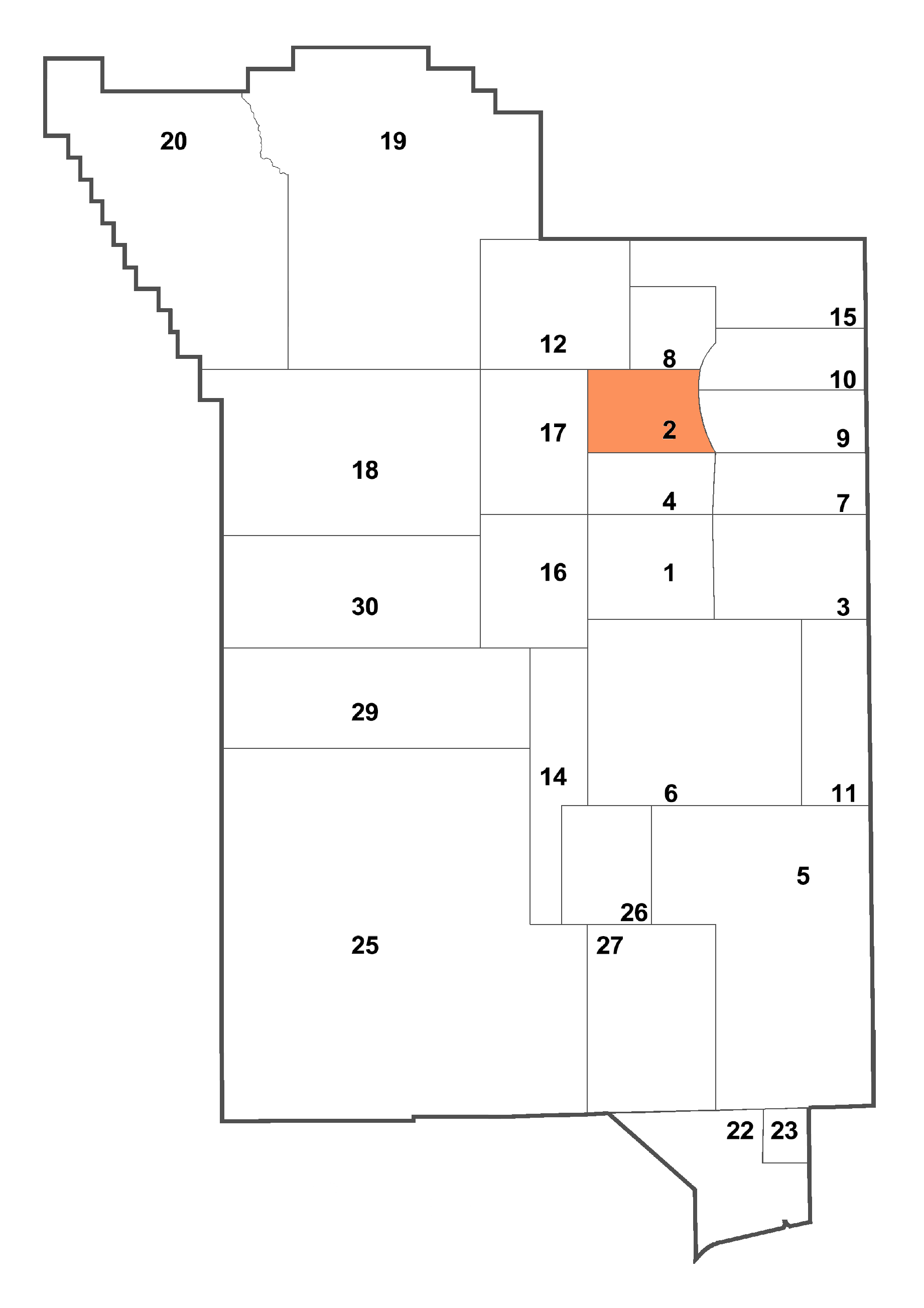 This is a derivative work based on a map taken from a PDF published by Nevada Risk Assessment/Management Program, Nevada Test Site, a part of the US Department of Energy.